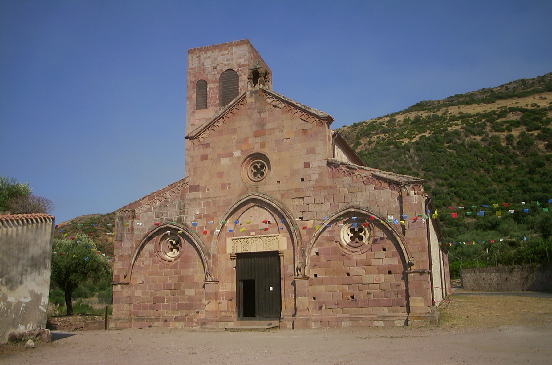 Romanic church of San Pietro Extra Muros in Bosa, Province of Oristano, Sardinia, Italy